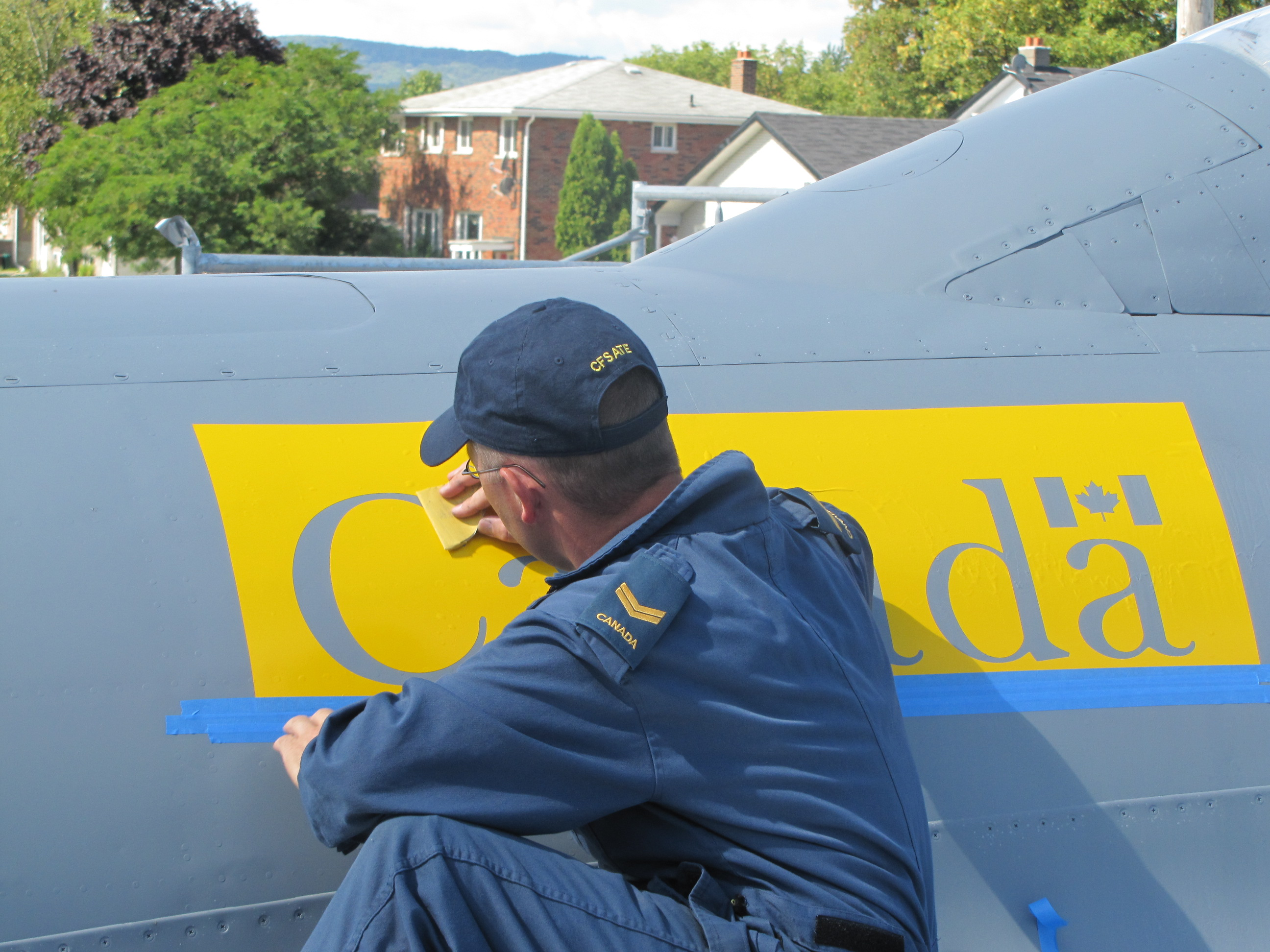 CFSATE student Cpl Corey Prowse applying Aircraft stencils